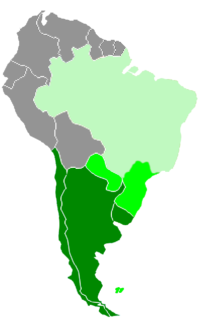 Southern cone map